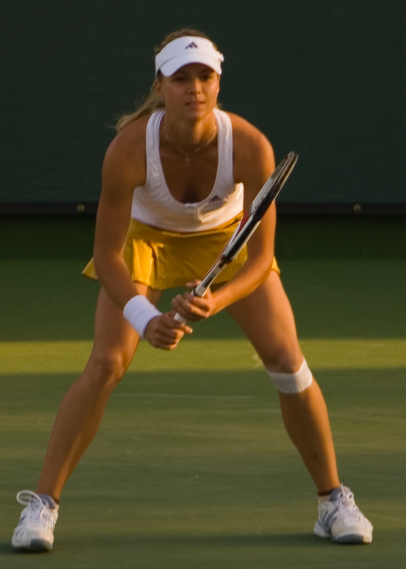 Maria Kirilenko gets ready to return a serve in her 2-6, 0-6 loss to Caroline Wozniacki of Denmark in the second round of the 2008 Pacific Life Open on Stadium 3.